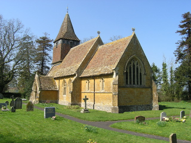 St Peter's parish church, Hornblotton, Somerset, seen from the southeast